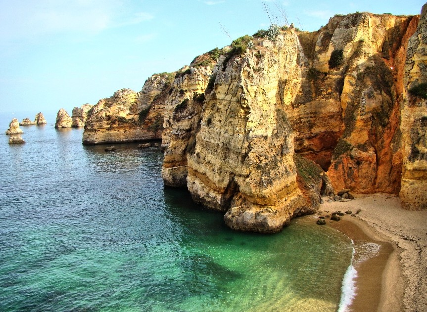 Dona Ana beach